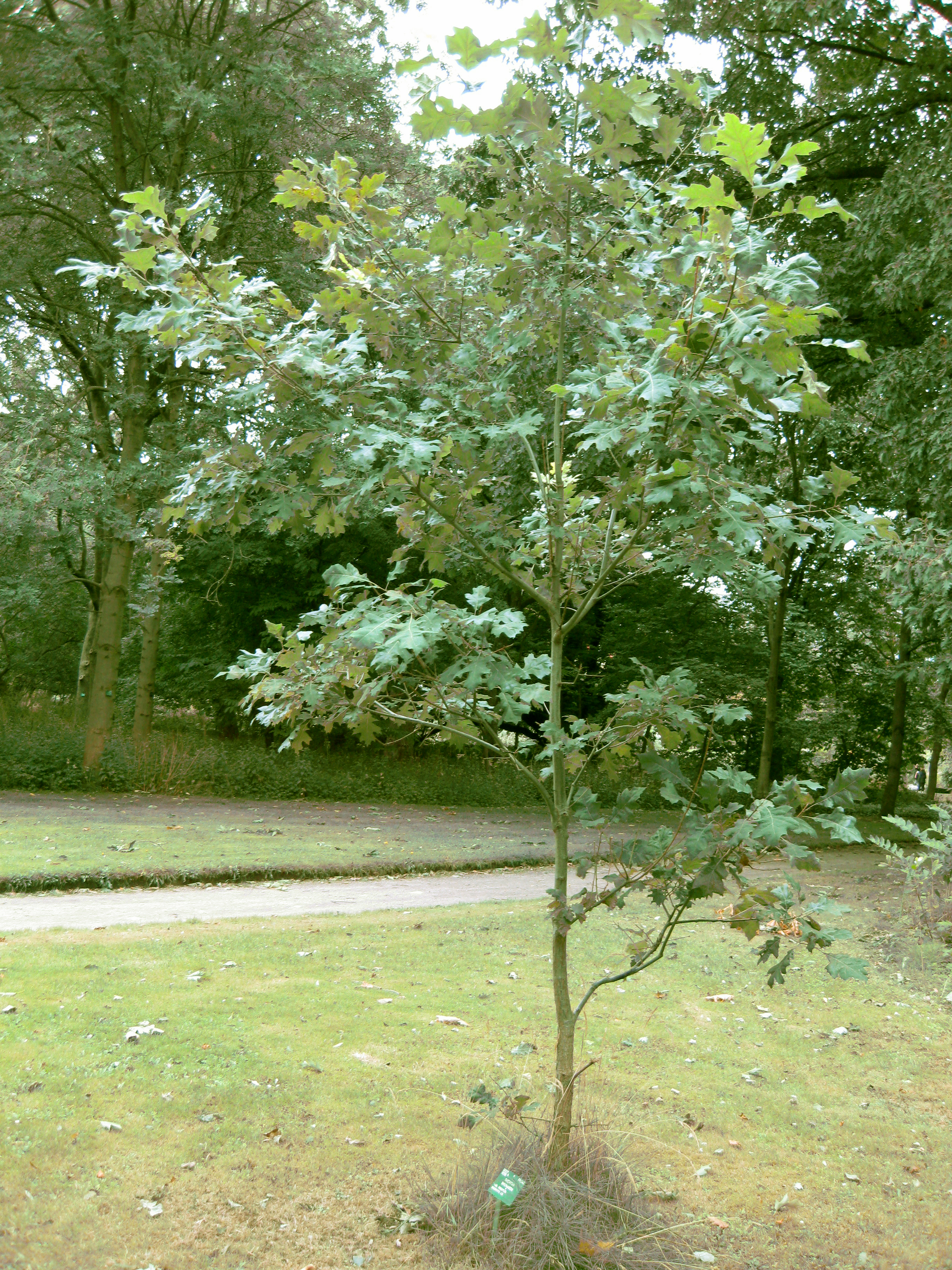 Shumard oak in the botanical garden in Copenhagen